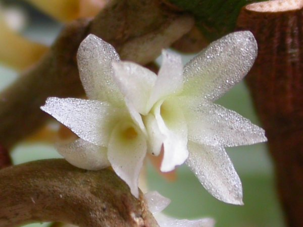 Campylocentrum micranthum - specimen from Brazil